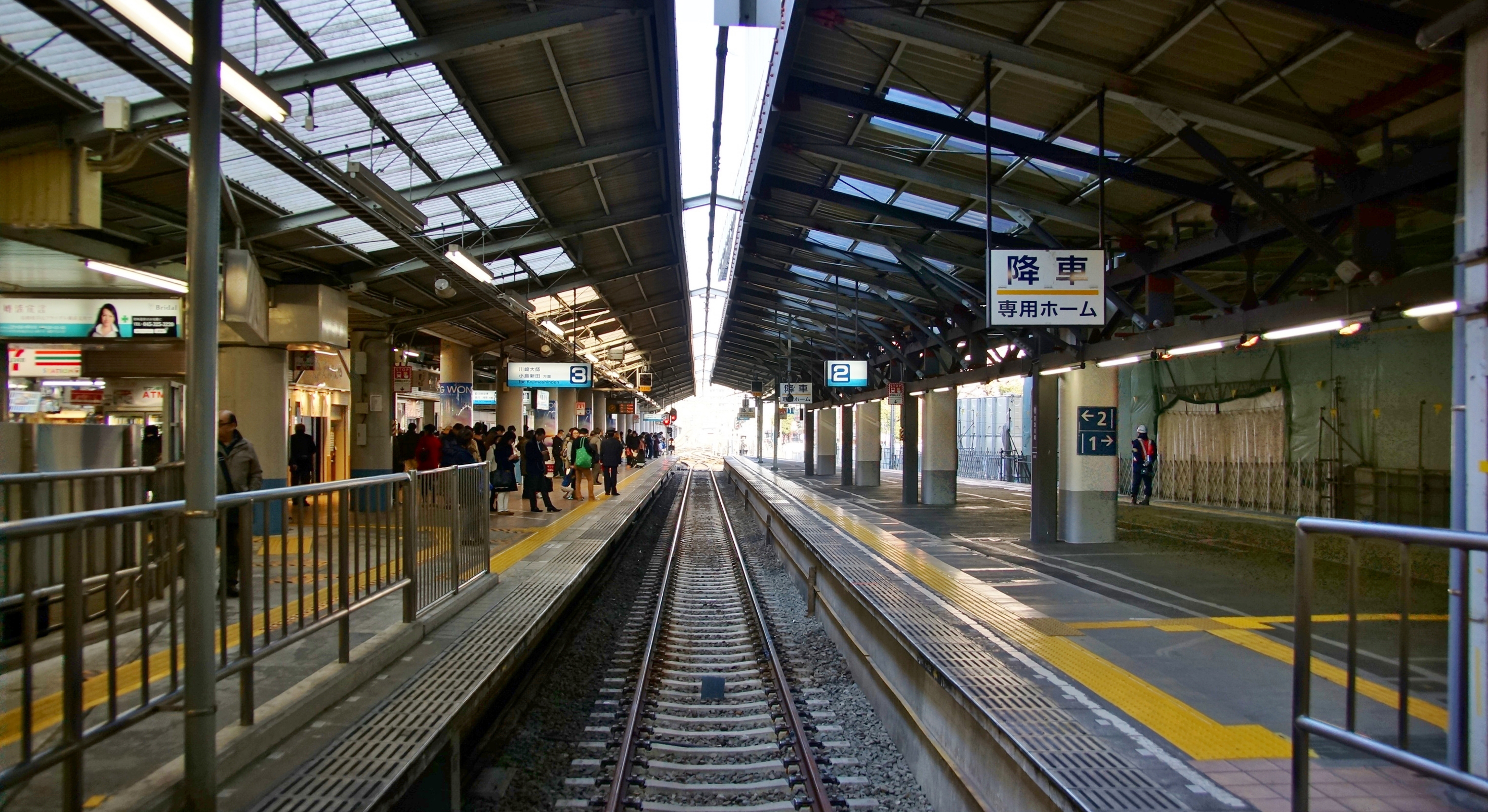 The ground-level Daishi Line platforms at Keikyu Kawasaki Station